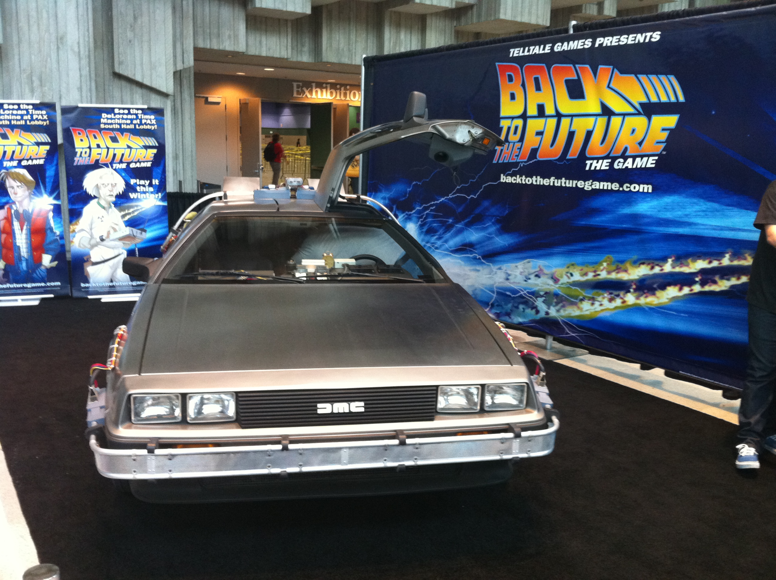 Promoting the Back to the Future game from Telltale.